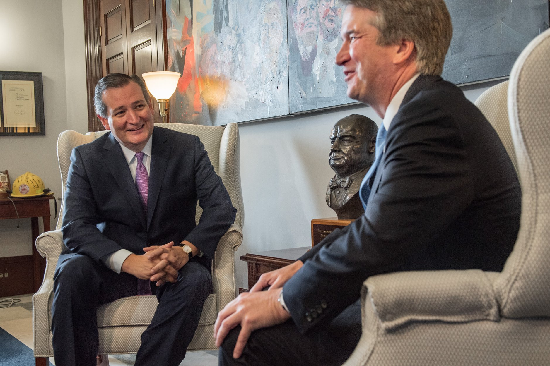 Glad to meet with Judge Kavanaugh at my DC office today to discuss his SCOTUS nomination. The American people want strong, constitutionalist justices on the Supreme Court. For over a decade, Judge Kavanaugh has served as one of the most distinguished and respected federal judges in the country. He has a strong record of defending the Second Amendment, safeguarding the separation of powers, reining in the unchecked power of federal agencies, and preserving our precious religious liberties. I look forward to his confirmation hearing, where he will have the opportunity to demonstrate to the American people that he will uphold the rule of law and interpret the Constitution according to its original meaning. Despite Senate Democrats best efforts to demagogue this nomination, they will be unsuccessful. As a member of the Senate Judiciary Committee, I look forward to supporting his nomination, and am confident that the Senate will move swiftly to confirm Judge Kavanaugh in the coming months.